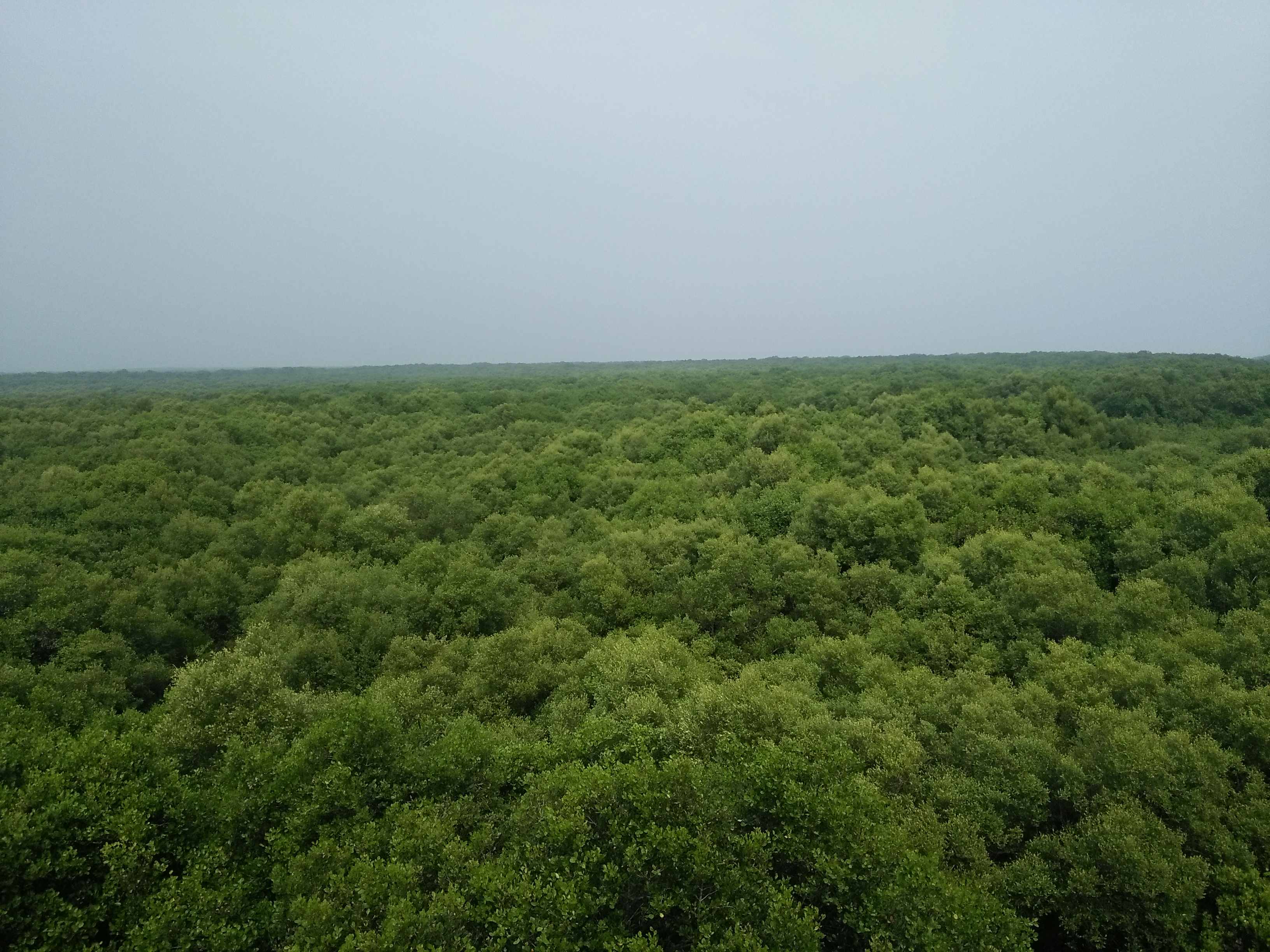 dense green mat of trees in Coringa wildlife sanctuary near Kakinada.